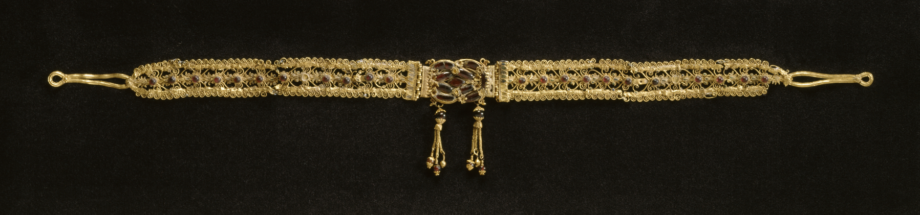 High-ranking or wealthy Greek women often wore elaborate diadems and hairnets of gold and gemstones as part of their jewelry. The centerpiece of this intricate openwork diadem is adorned with a large Hercules knot, inspired by the one the hero used to tie the paws of the lion skin he wore. Due to its protective quality, it also became important in marriage symbolism and was a common motif for women's jewelry of the Hellenistic period, and in royal Macedonian art more generally. The Roman author Pliny (AD 23-79) even attributed healing qualities to the Hercules knot. This elaborate example is decorated with a miniature snake on each of the four edges, twelve gold rosettes, and two long tassels, which would be placed on the forehead.